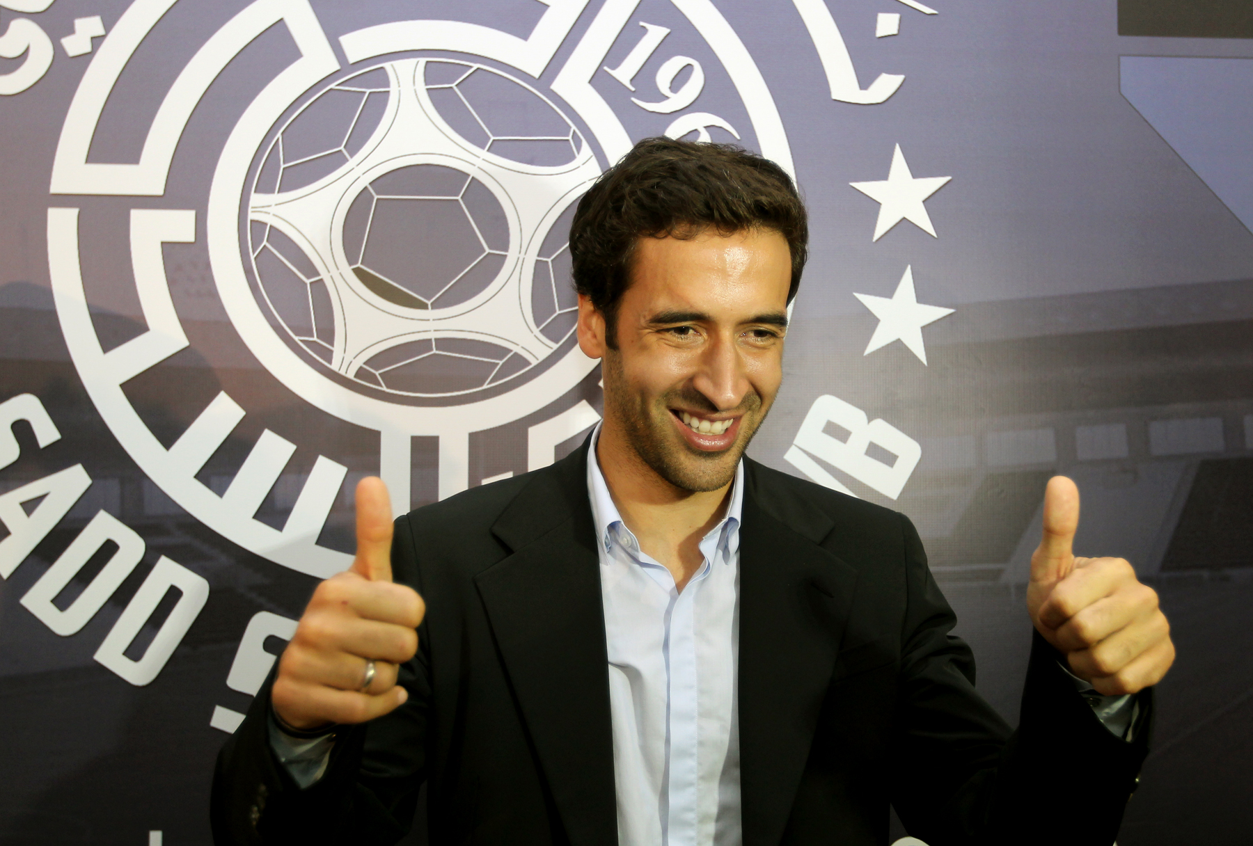 Spanish and Real Madrid legend Raul Gonzalez after signing for Qatari side Al Sadd. Picture by Mohan